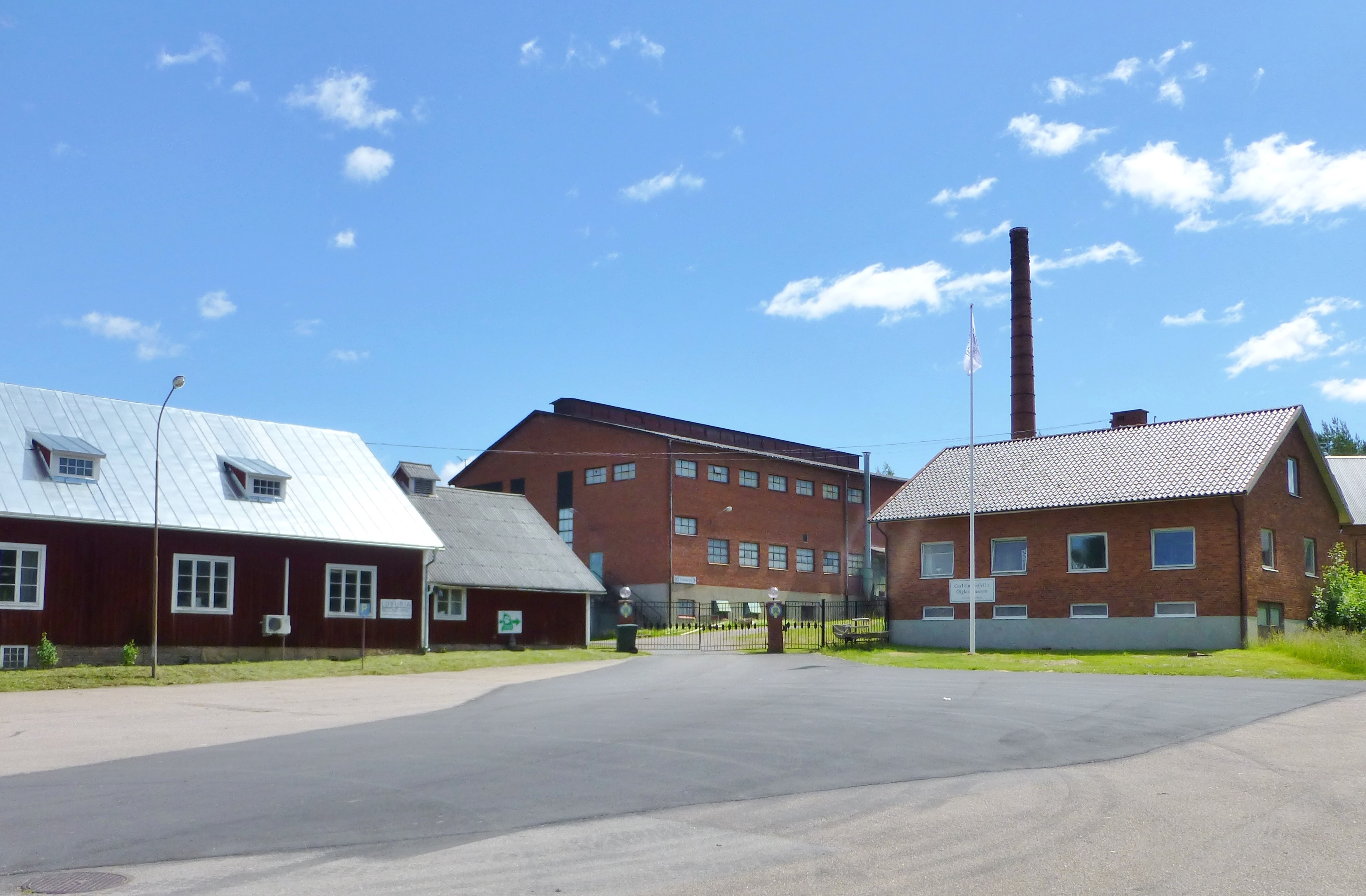 Rosdala glassworks